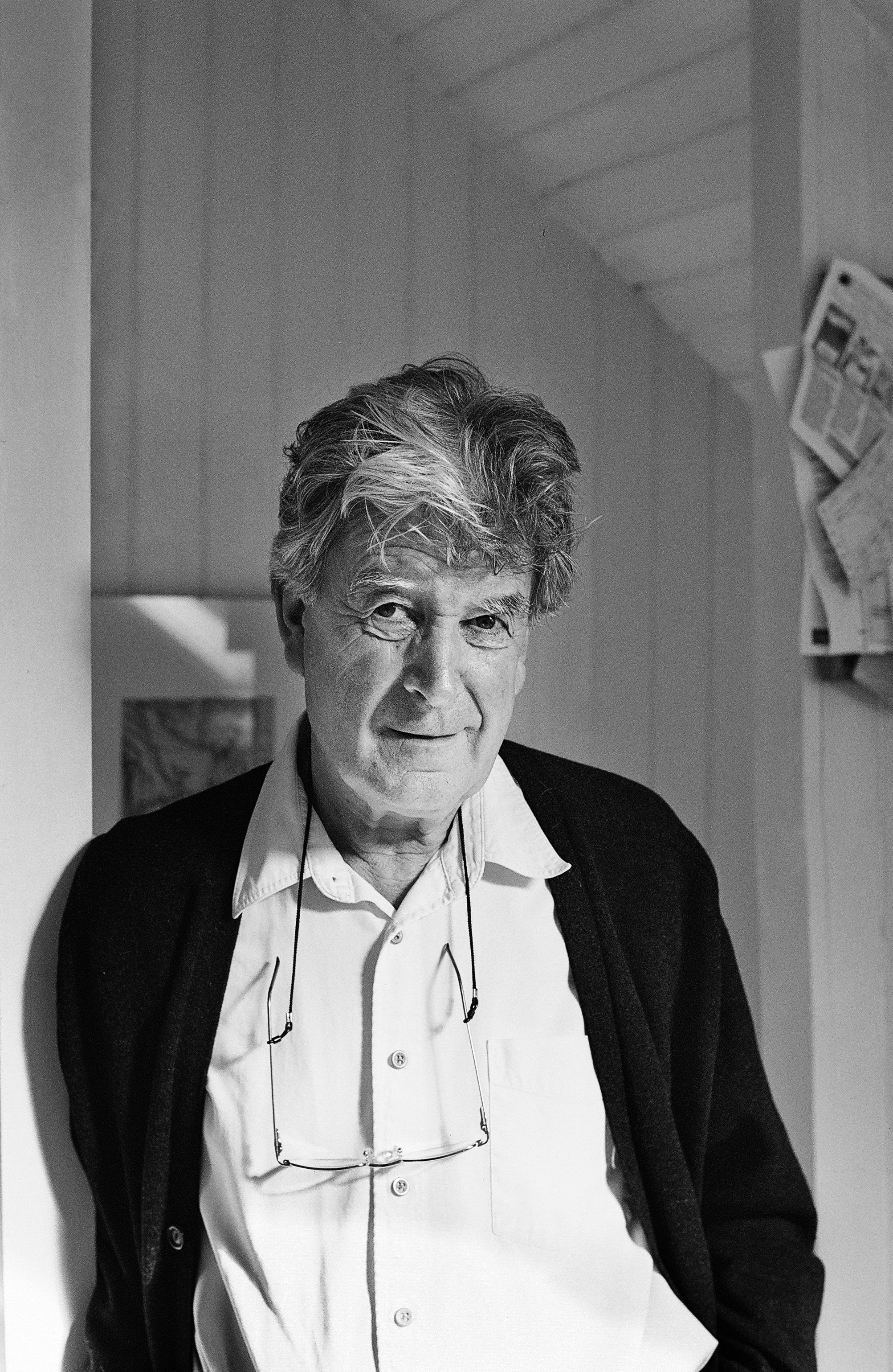 Scottish actor and author David Ashton